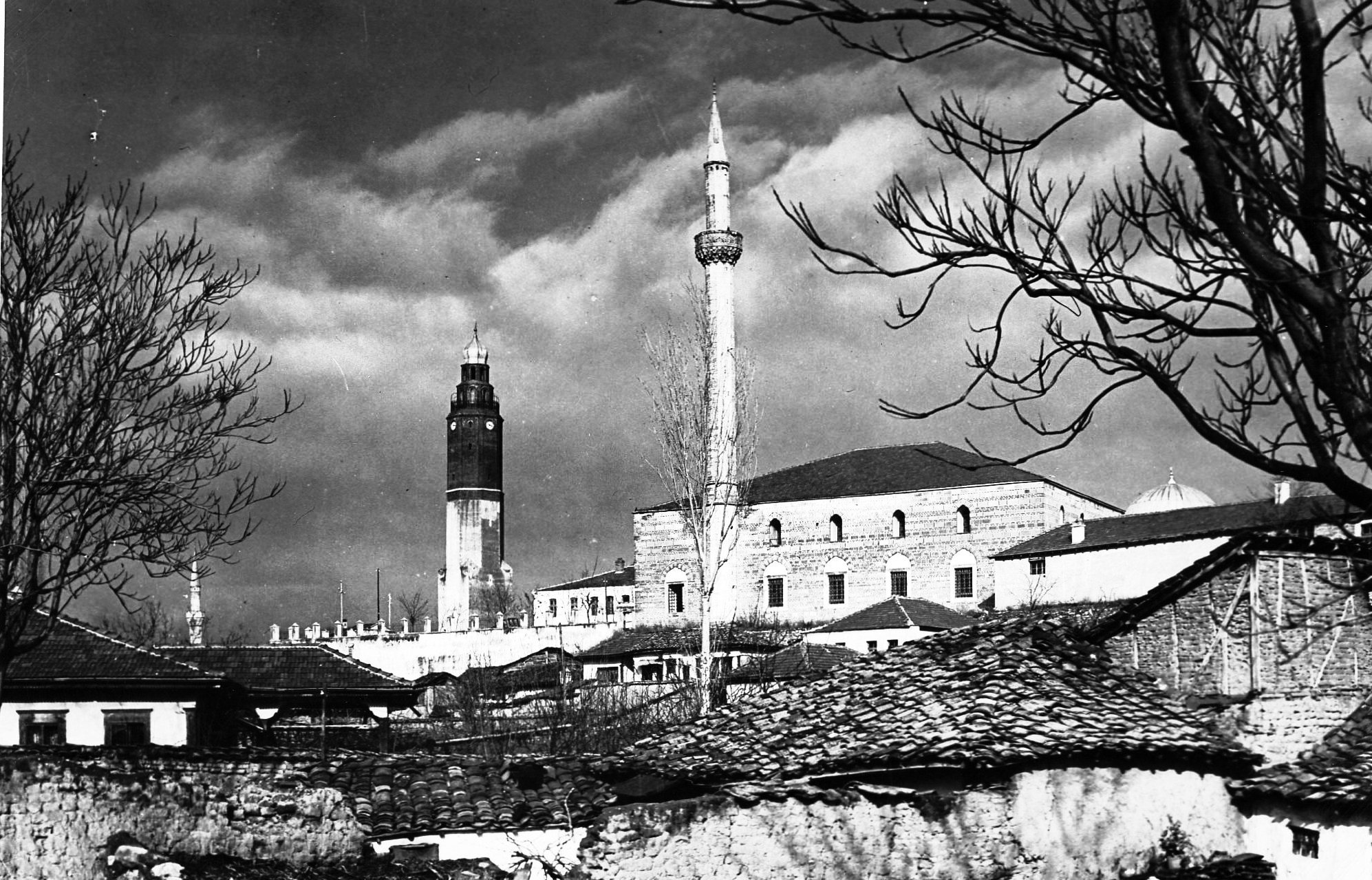 Postcard of Skopje, Sultan Murat Mosque and Clock Tower, 1939 This media file is produced by Wikipedian in Residence in Category:Wikipedian in Residence at DARM in 2016.